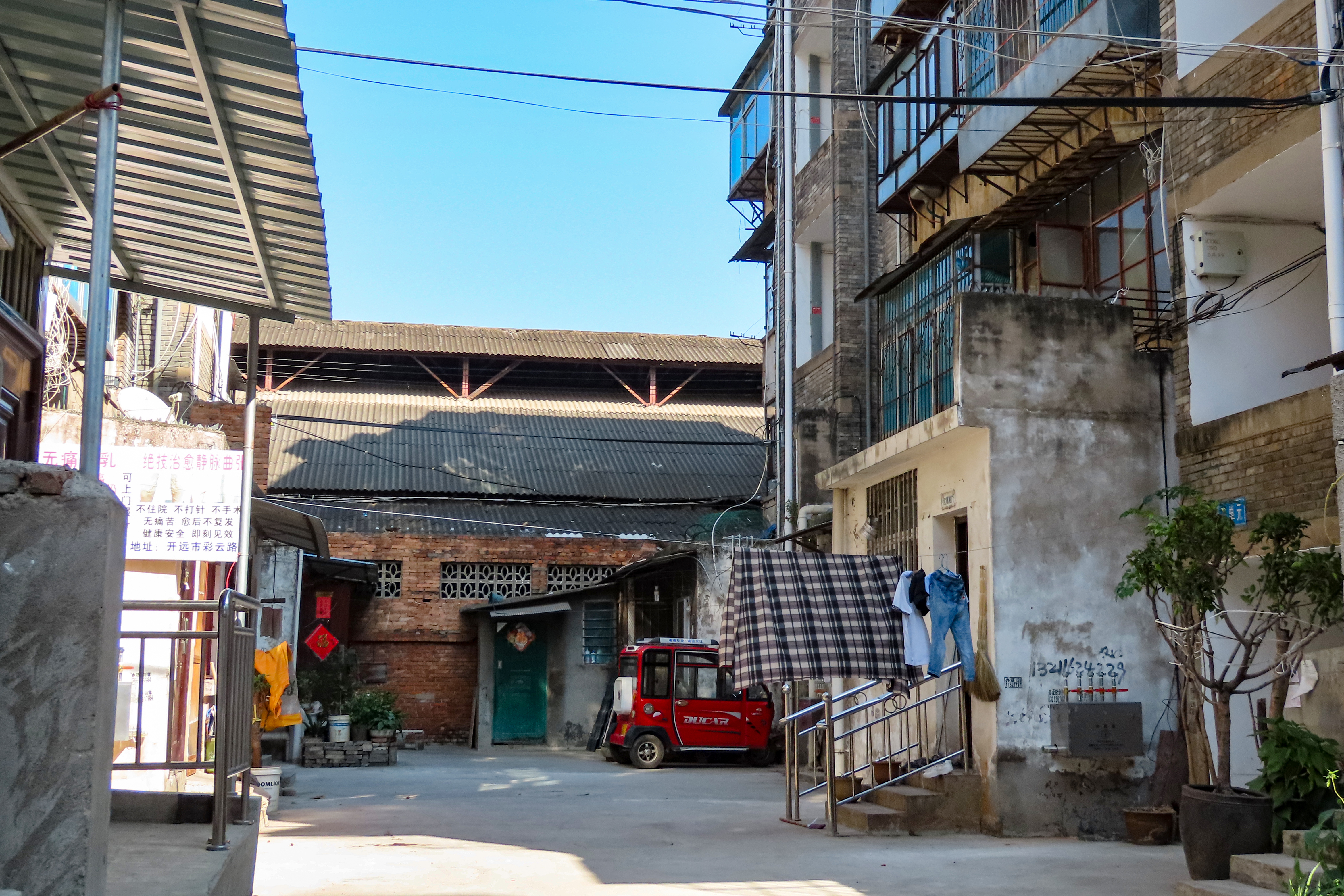 Maybe this is the former locomotive depot.